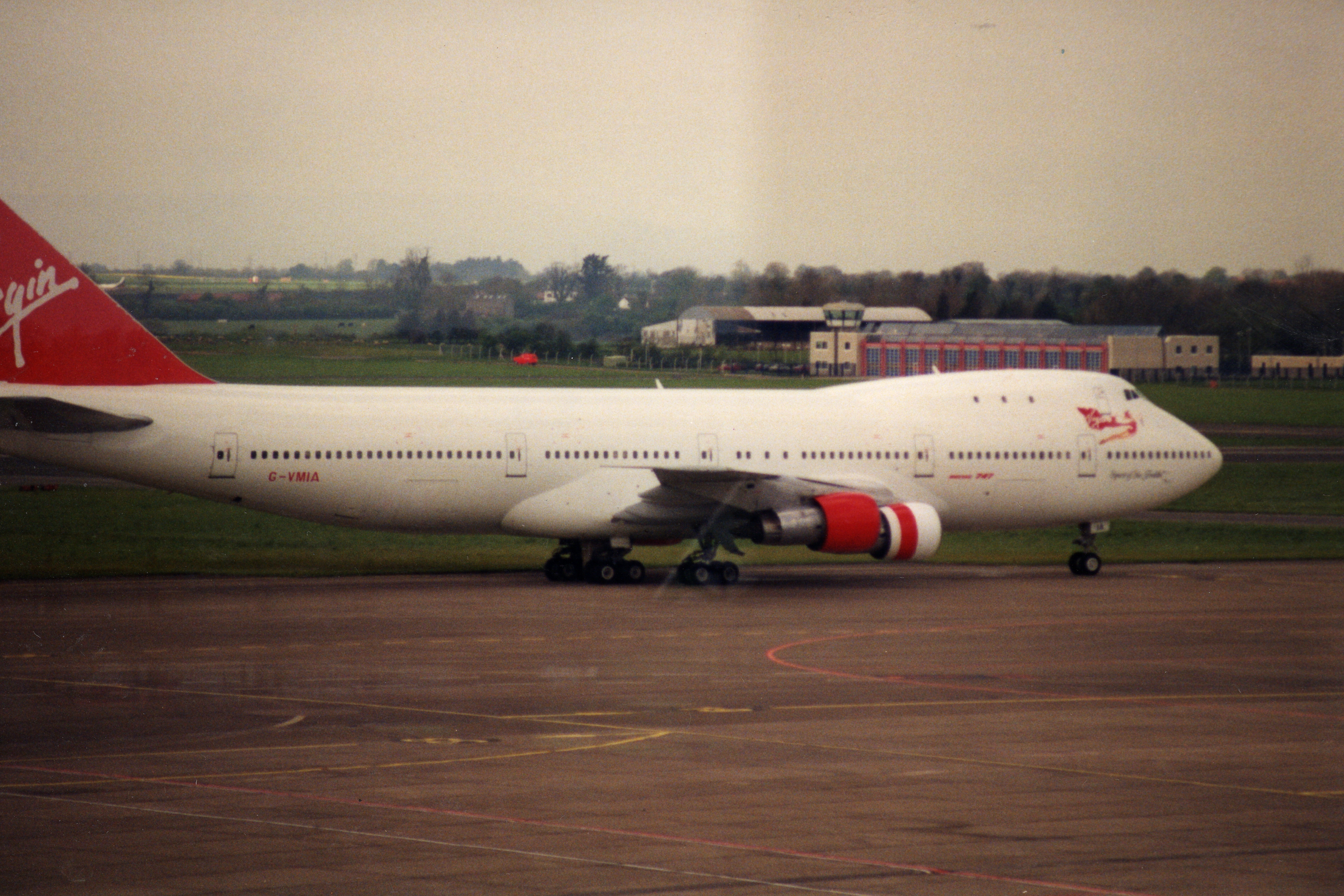 Virgin Atlantic Airways (G-VMIA) Boeing 747-100 aircraft, Dublin Airport, Dublin, Republic of Ireland, May 1994